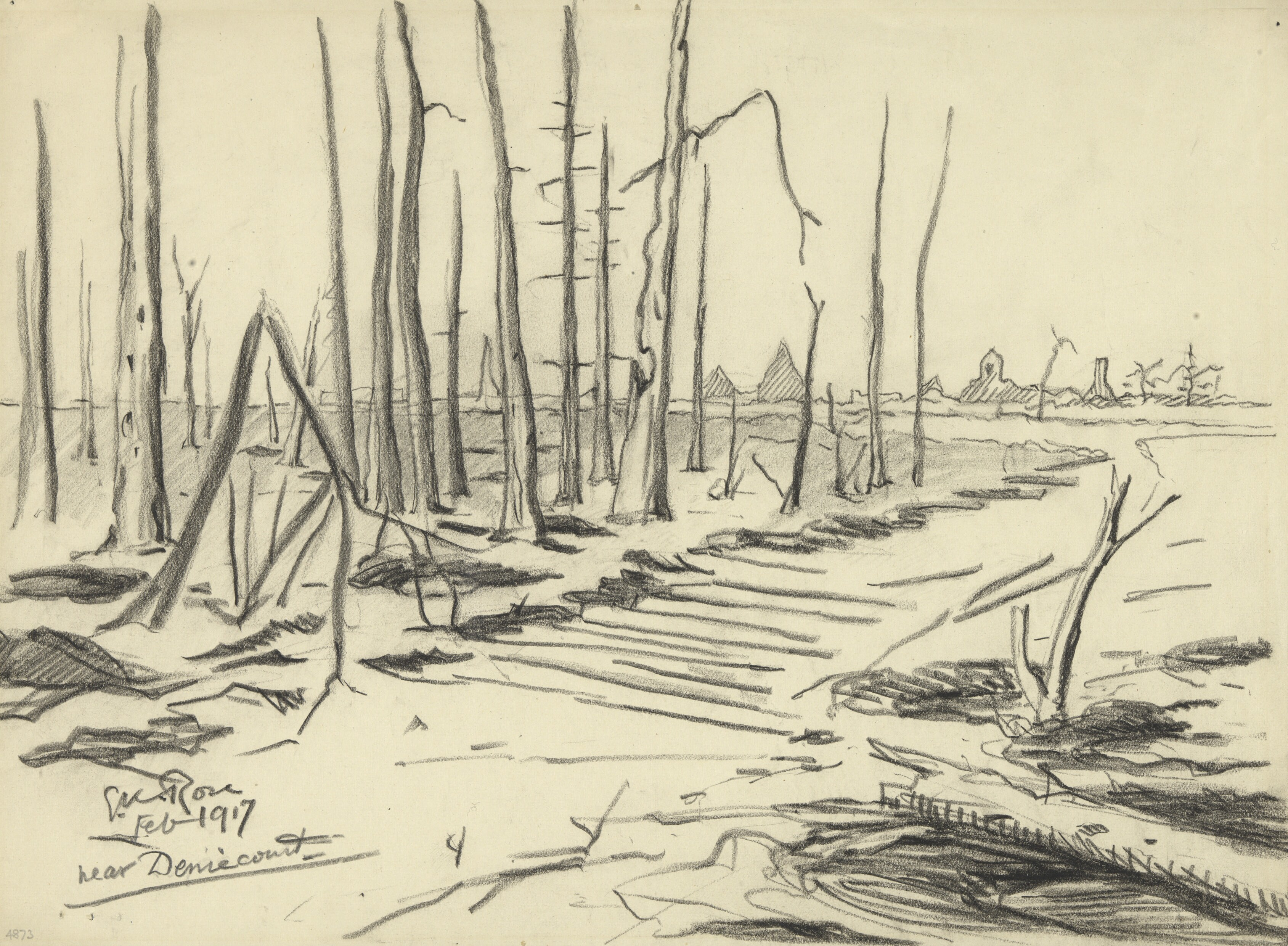 Near Deniecourt, February 1917 image: a view across a bomb damaged landscape. A road runs towards a few ruined buildings in the right background, with the shattered tree stumps of a small wood in the left foreground.